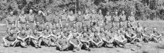 Outdoor group portrait of fifty three personnel of the 2/8th Commando Squadron.